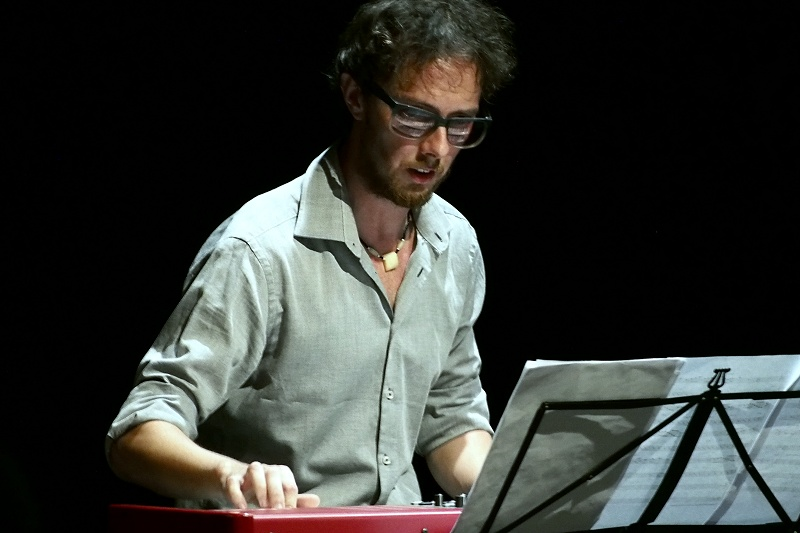 Marko Churnchetz (organ) po150818 (19)-800